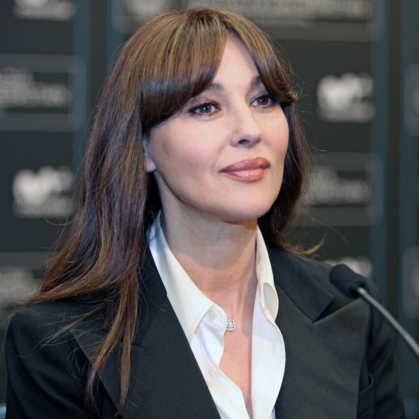 Monica Bellucci at the International Film Festival in San Sebastián. The Italien actress was honored there with a life achievement award.